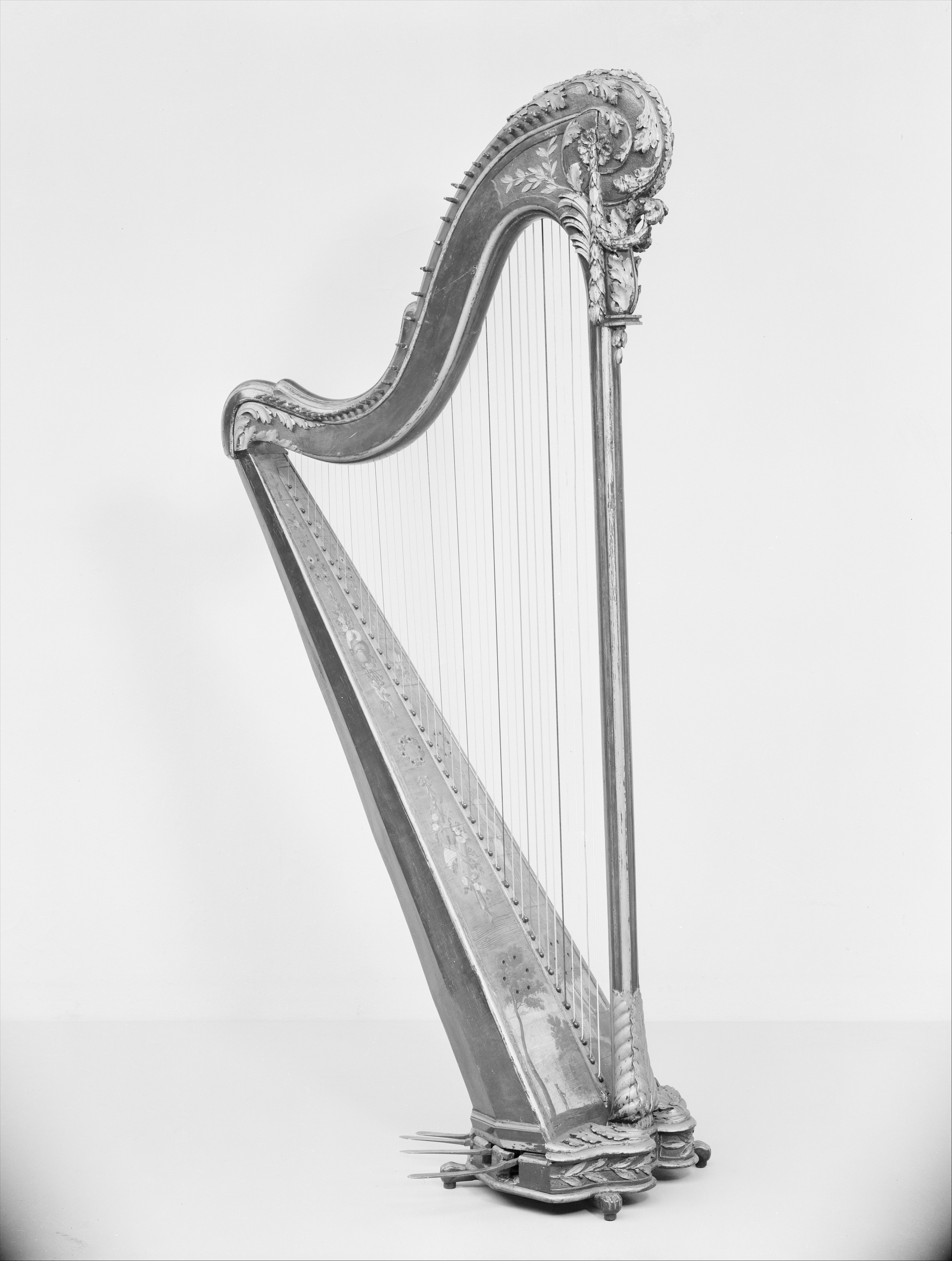 French; Pedal Harp; Chordophone-Harp